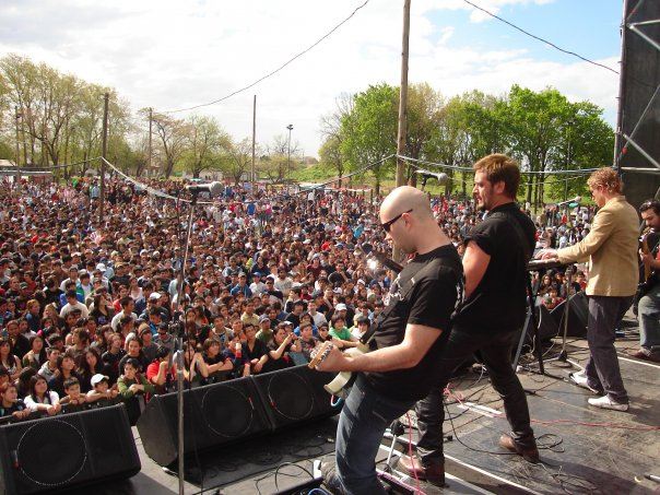 El Cielo Playing live at the Plaza Bujan